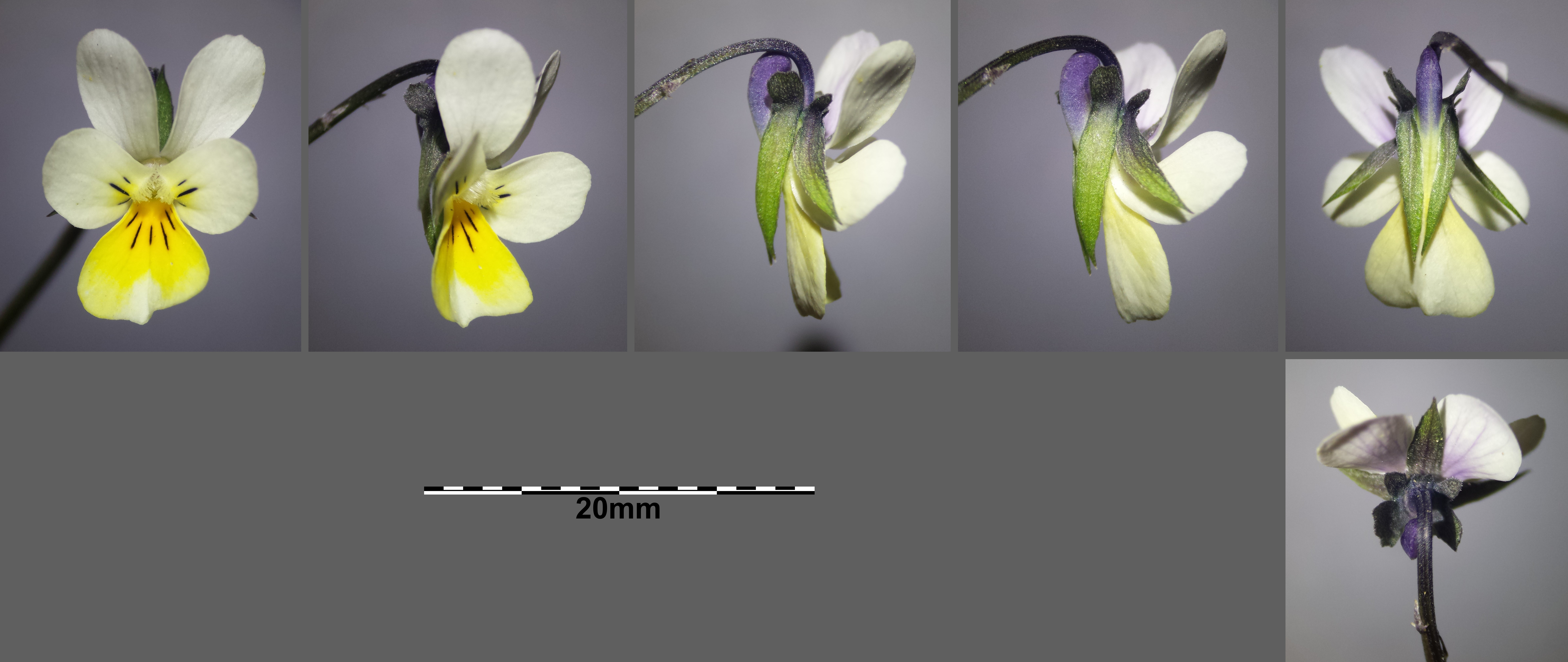 Flower Taxonym: Viola arvensis subsp. arvensis ss Fischer et al. EfÖLS 2008 ISBN 978-3-85474-187-9 Location: Waschberg near Leitzersdorf, district Korneuburg, Lower Austria - 290 m a.s.l. Habitat: field